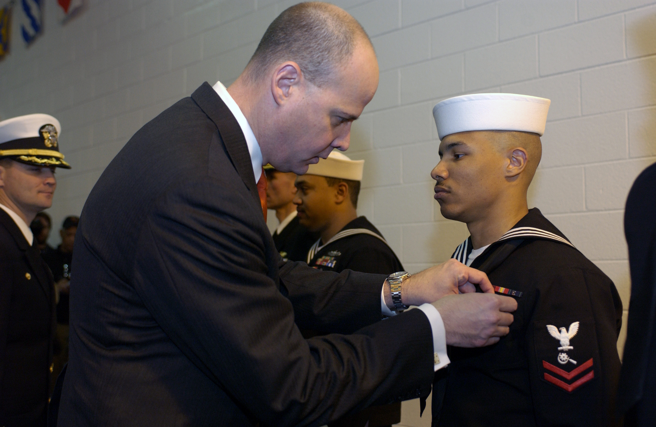 Naval Reserve Center Baltimore, Md. (Apr. 17, 2004) - Assistant Navy Secretary Dionel Aviles pins the Navy and Marine Corps Medal on Machinery Repairman 2nd Class Jerry Neblett for his actions in helping rescue passengers from the Lady D, a water taxi that capsized in Baltimore Harbor on March 6. Twenty-six reservists from Naval Reserve Center Baltimore received awards for their heroic efforts. U.S. Navy photo by Photographer's Mate 2nd Class Damon Moritz. (RELEASED)